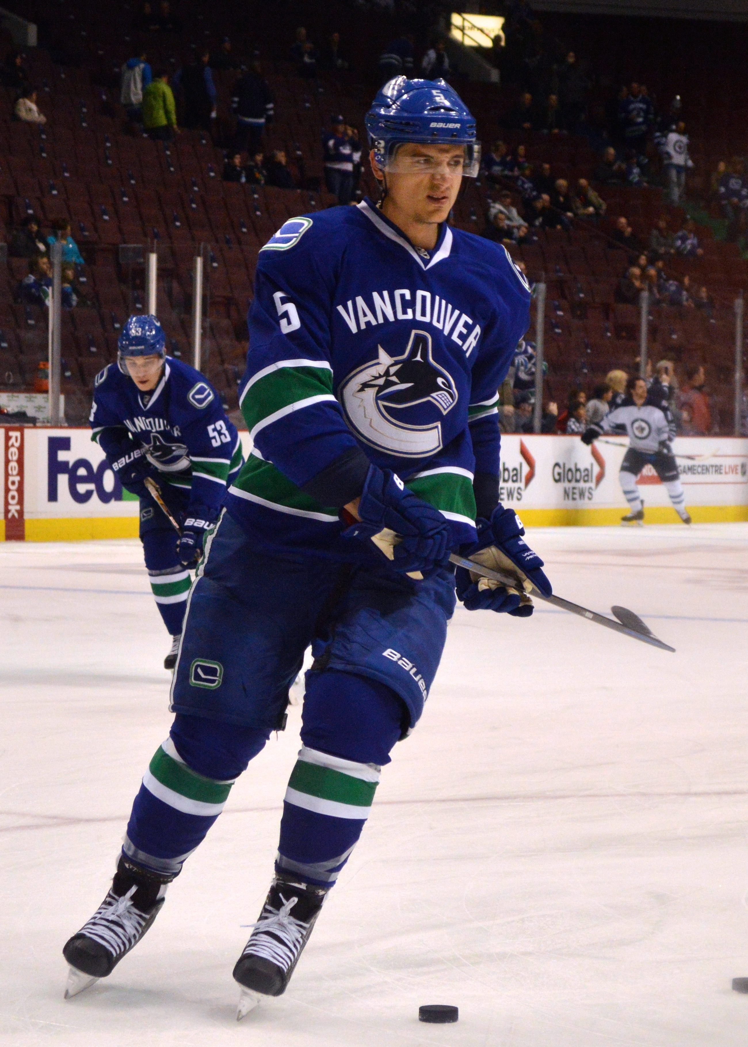 Vancouver Canucks defenceman Luca Sbisa during warm-up prior to a game against the Winnipeg Jets at Rogers Arena on February 3, 2015.